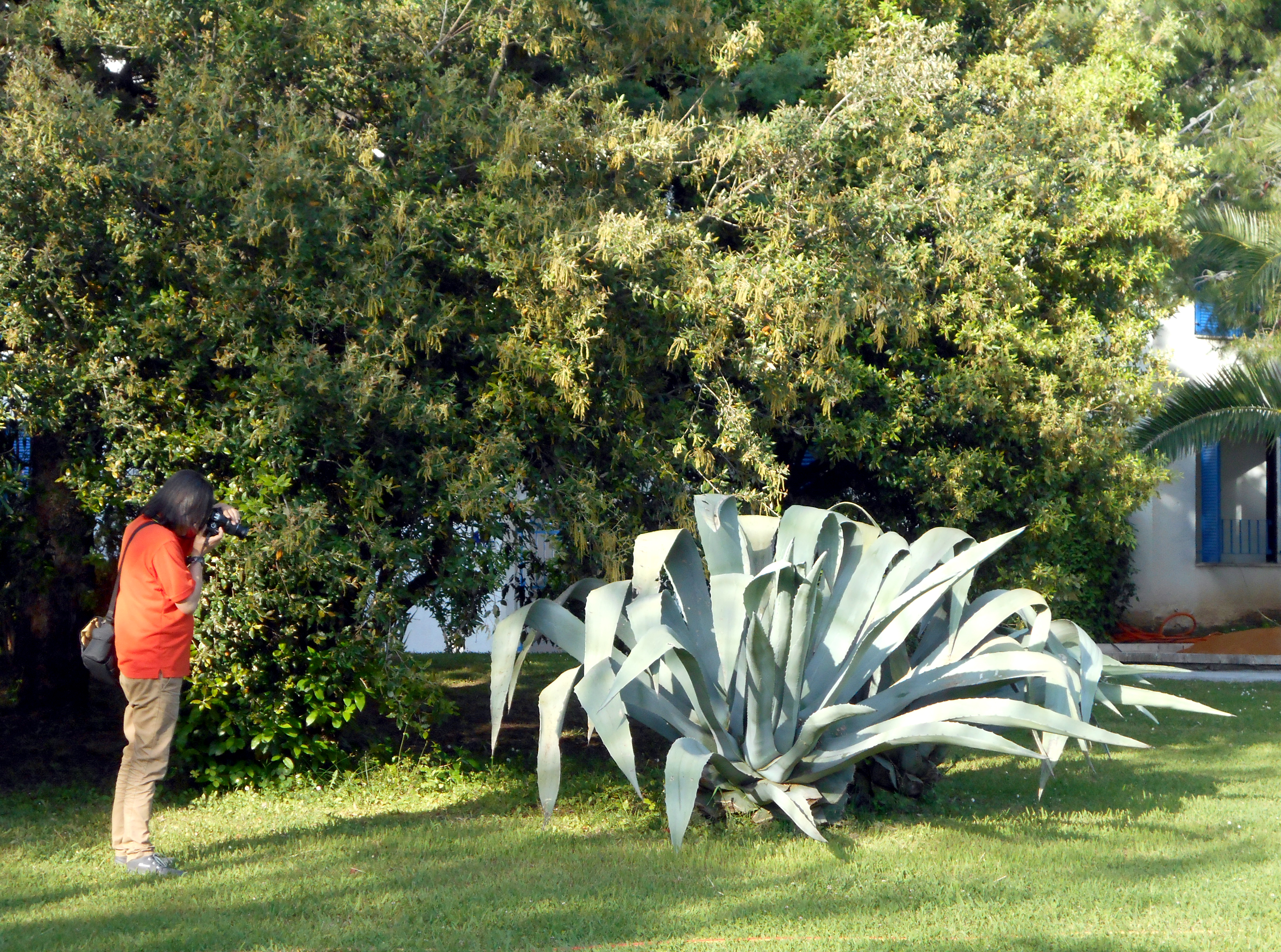 Large agave (Agave americana) in the park of the tourist complex "Slovenska plaža" (Slavic beach) in Budva, Montenegro